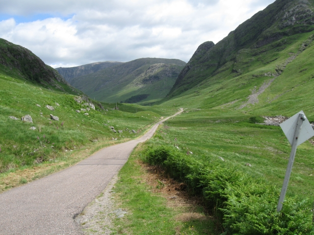 Glen Etive Road